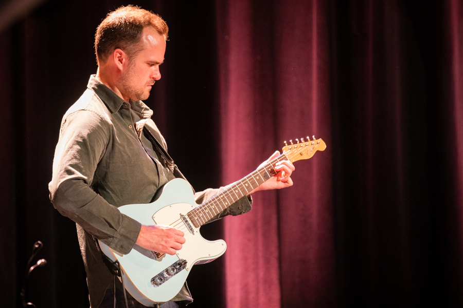 Matthew Stevens in a concert with Linda May Han Oh at Victoria Teater. The concert took place on 23. October 2019 in Oslo. Lineup:Linda May Han Oh (double bass and bass guitar)Will Vinson (alto saxophone)Matthew Stevens (guitar)Eric Doob (drums)